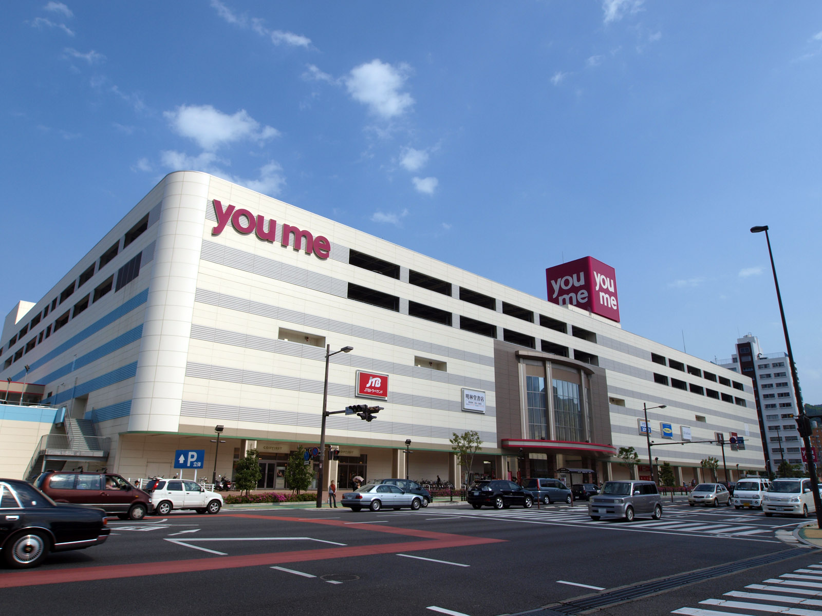 You me Town Beppu, Beppu City, Oita Prefecture